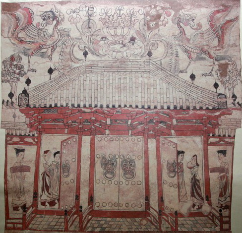 Mural from a tomb of Northern Qi Dynasty in Jiuyuangang, Xinzhou